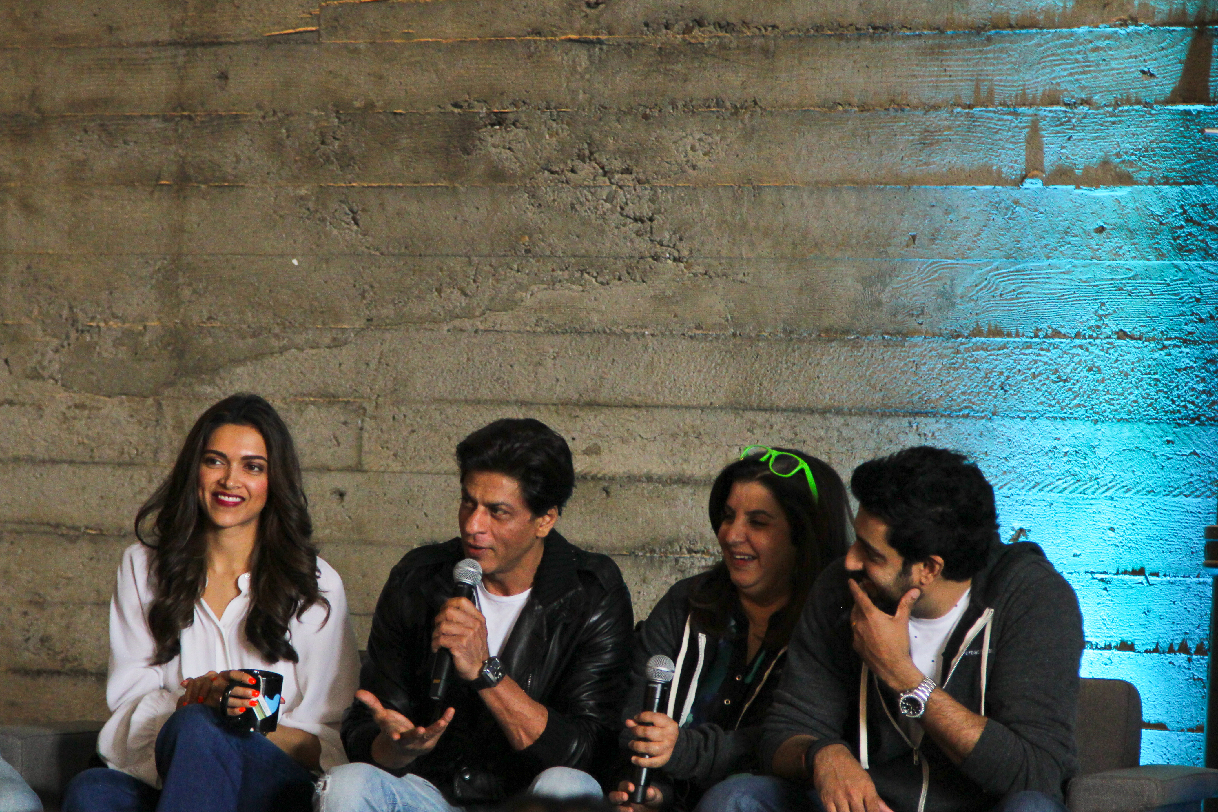 Crew of Happy New Year at Twitter HQ